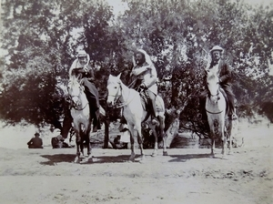 Pilgrims at the Jordan, near Jericho, 1891. From original silver print in book titled: "A Month in Palestine and Syria, April 1891," (author unknown). Original 19th century book in the possession of Kimberly Blaker, New Boston Fine and Rare Books.